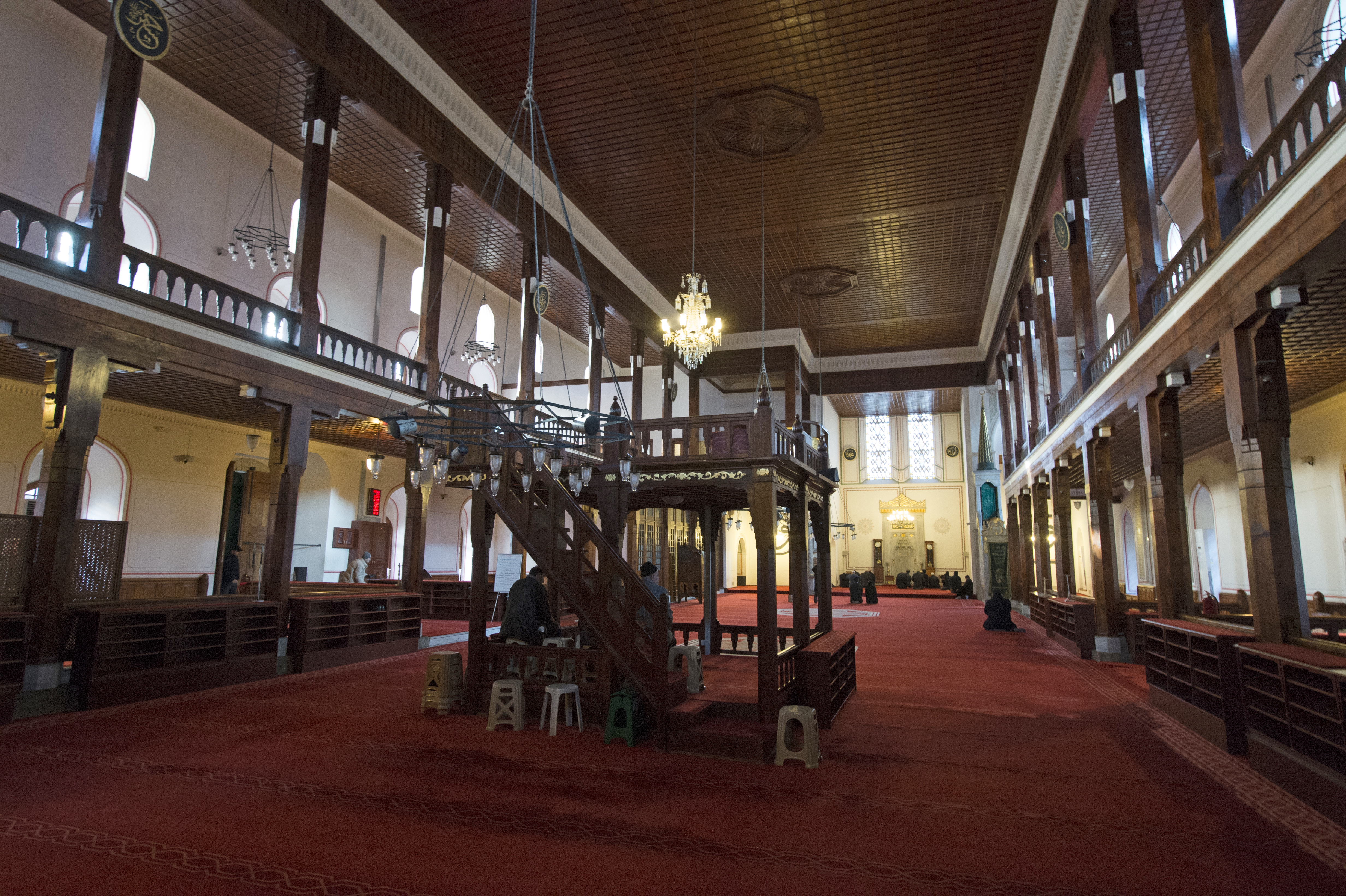 It was taken over by the Moors who had in the 16th century been expelled from Spain and who settled in this district. It was a church, probably founded by the Dominicans in 1323-37, dedicated to St. Dominic. It burned partially several times, was restored again and widened, but remained a Gothic typical Latin church: a long hall, ending in three rectangular apses and with a bellfry (now minaret) at the east end. The wooden roof and galleries date from a restoration in 1913-19, when the original floor was uncovered and many Genoese tombstones came to light, now in the Archaeological Museum. In the centre we see the müezzin mahfili, a raised platform for chanters.